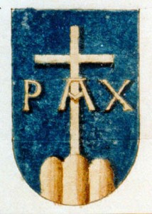 Escudo de la Orden de San Benito, dibujado en 1605 en Insegne di varii prencipi et case illustri d'Italia e altre provincie (Módena, 1605)